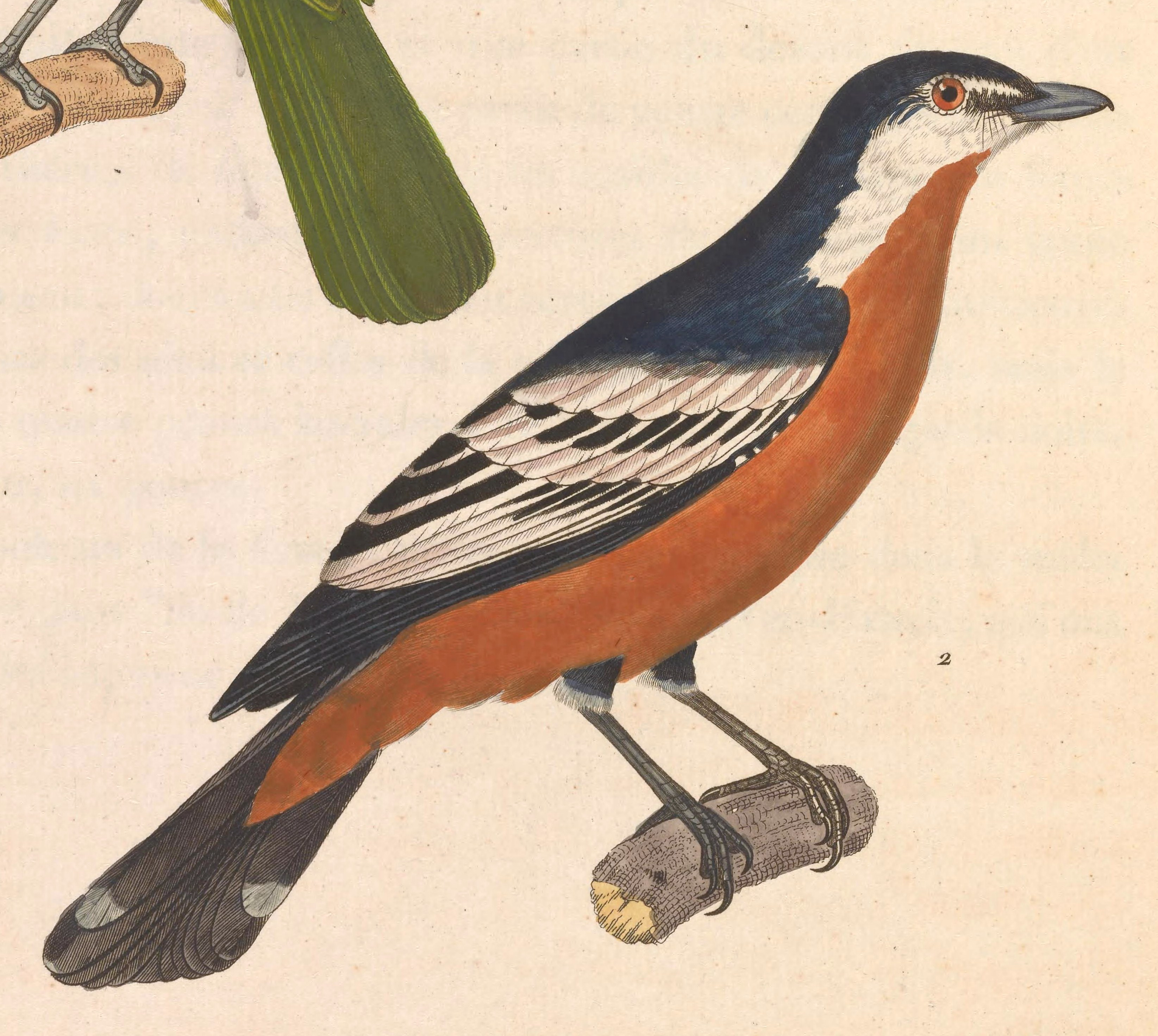 « Ceblephyris aureus » = Lalage aurea (Rufous-bellied Triller) - male